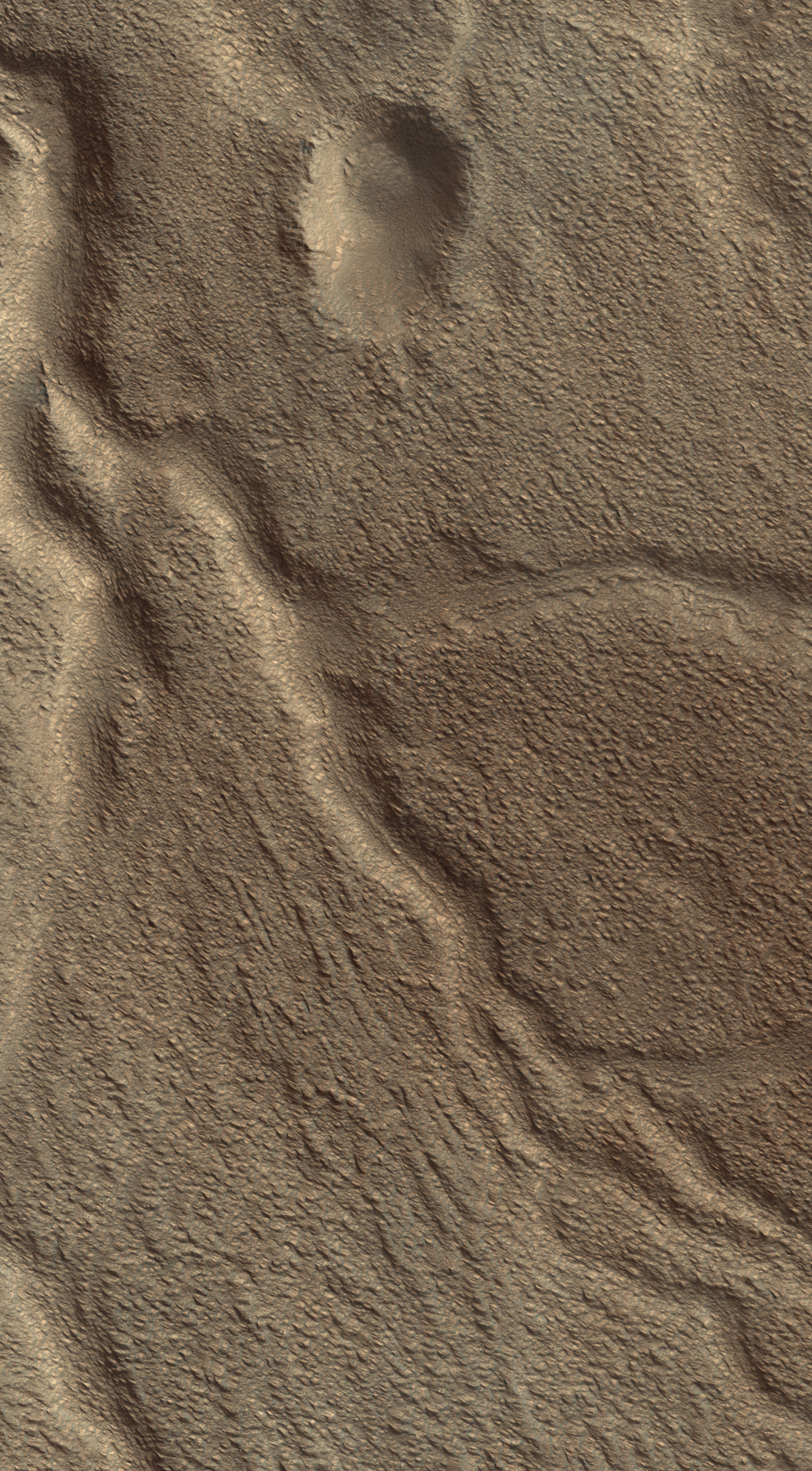 A network of valleys in Phlegra Montes on Mars imaged by the HiRISE instrument aboard Mars Reconnaissance Orbiter.